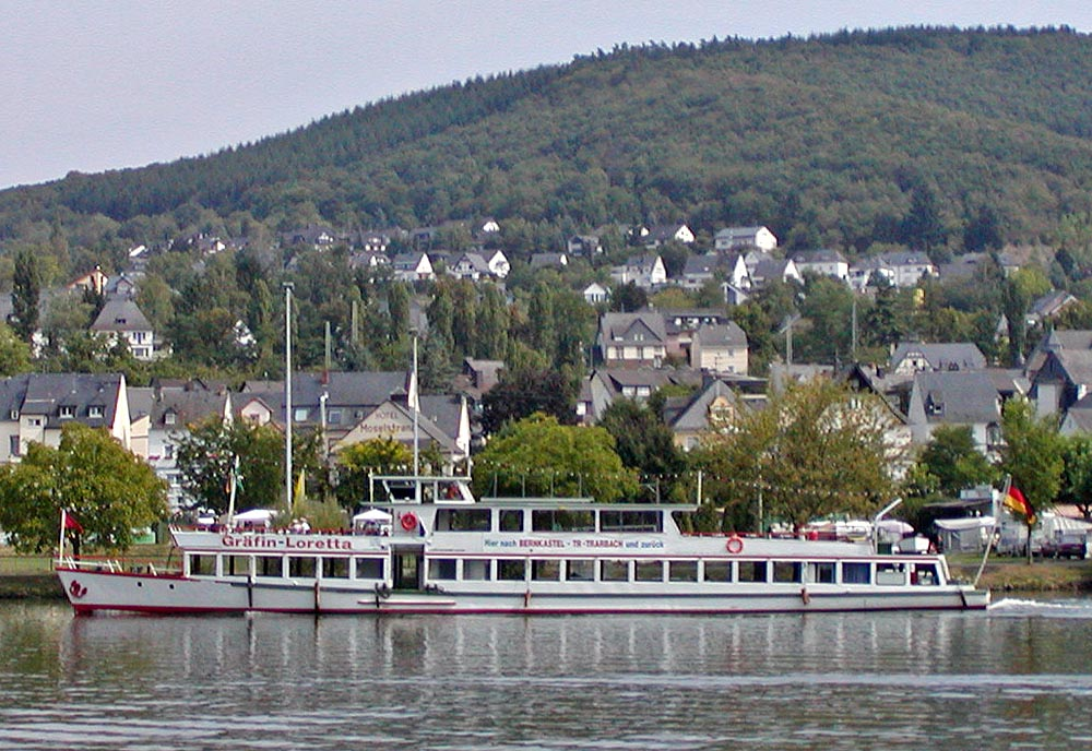 Photo of tour boat Gräfin-Loretta at Bullay, Rhineland-Palatinate, Germany